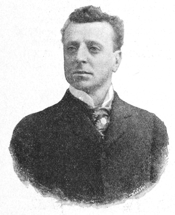 Portrait of Ermete Zacconi (1857 - 1948), Italian actor. It was published on ocassion of his guest performances in National Theater in Prague.